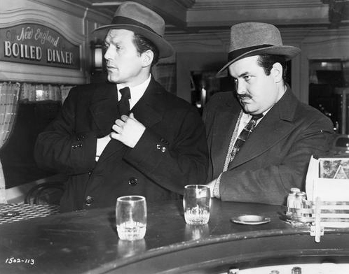 Promotional still from the 1946 film The Killers, published in New Movies: The National Board of Review Magazine